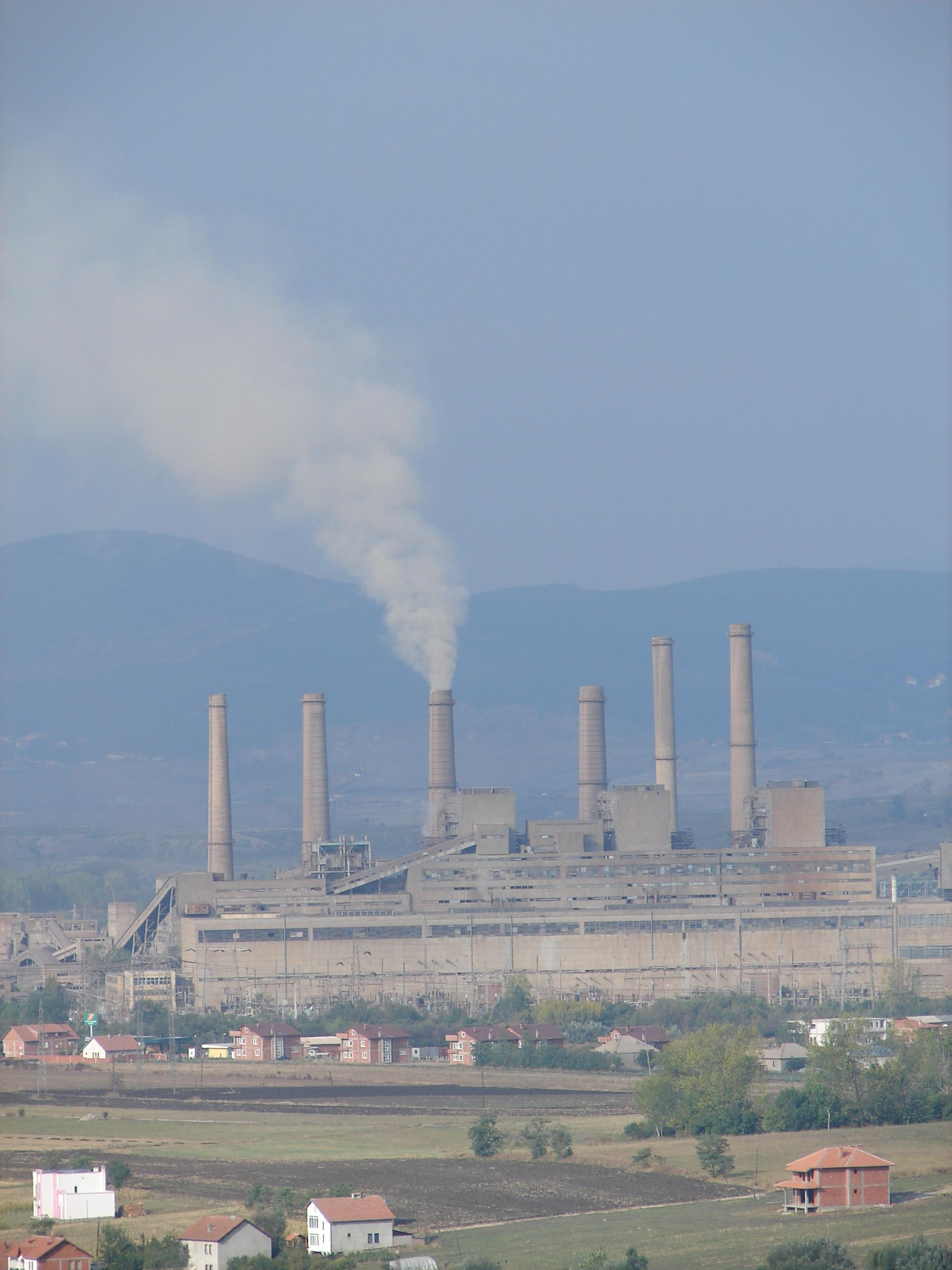 Power plant in Serbia.